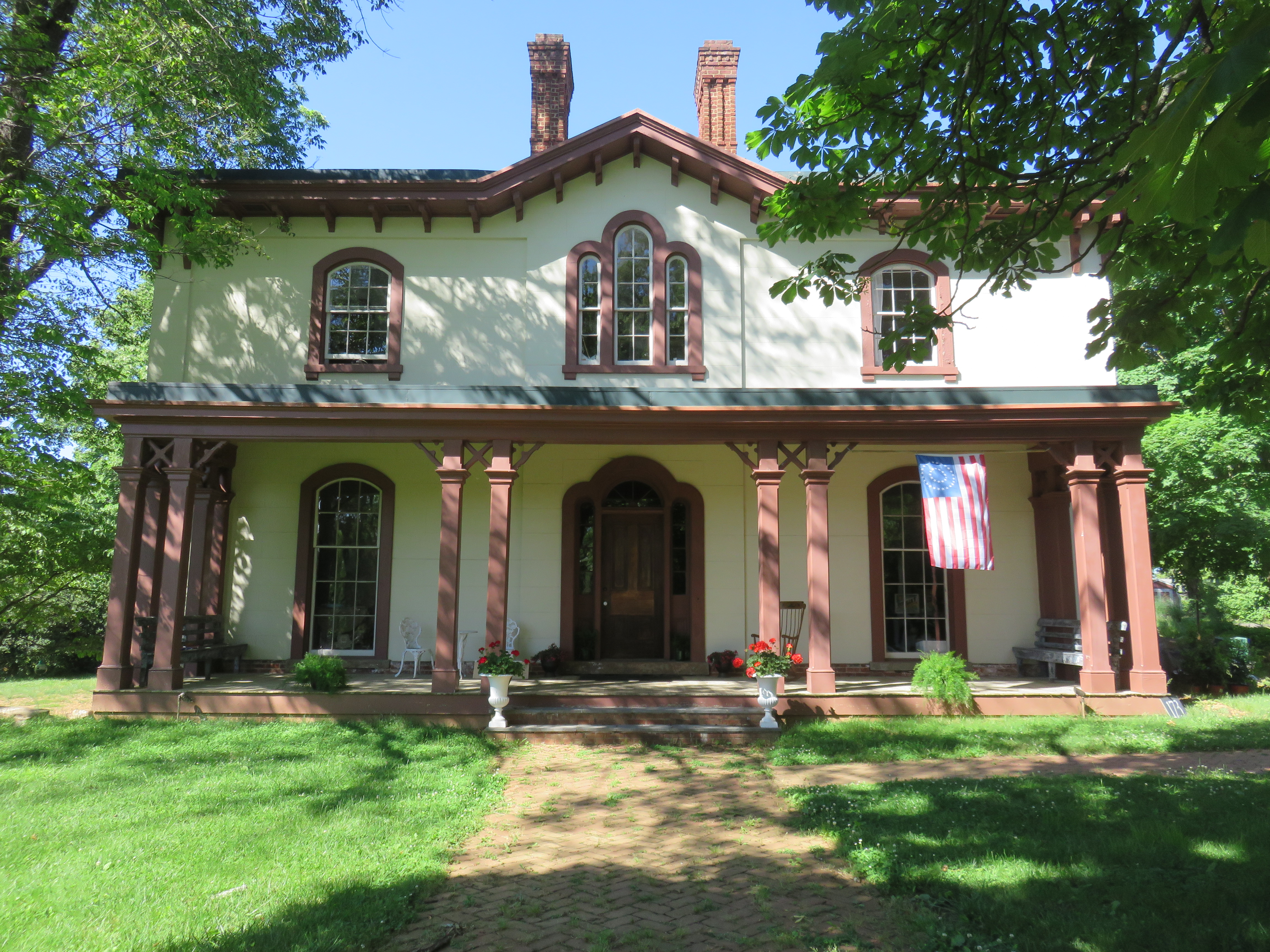 Brentmoor in Warrenton, Virginia in 2020